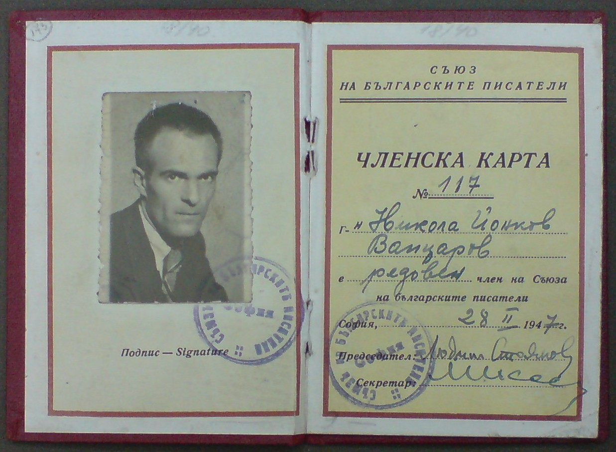 Membership card of Nikola Vaptsarov, issued from the Bulgarian writers' union after his dead, at 28.II.1947